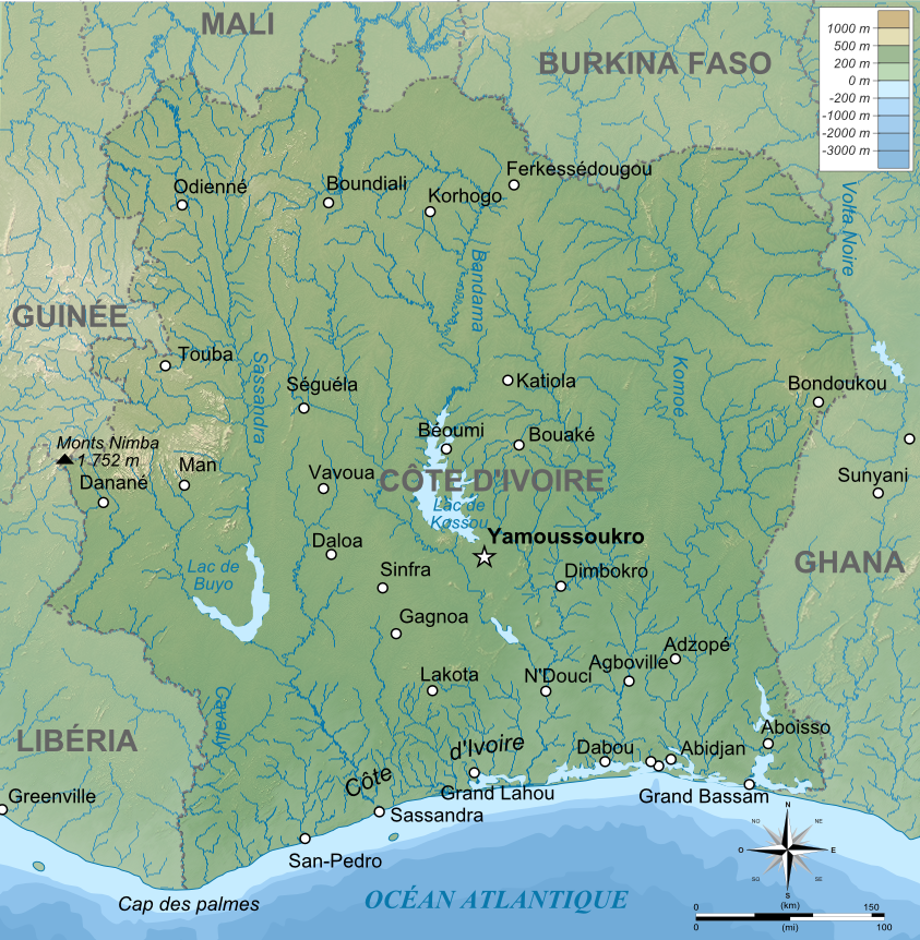 Map of Côte d'Ivoire. Equirectangular projection, WGS84 datum Approximative geographic limits of the map/limites approximatives (+-1'): Ouest : -009° 00' W Est : -002° 00' E Nord :011° 00' N Sud :004° 00' N